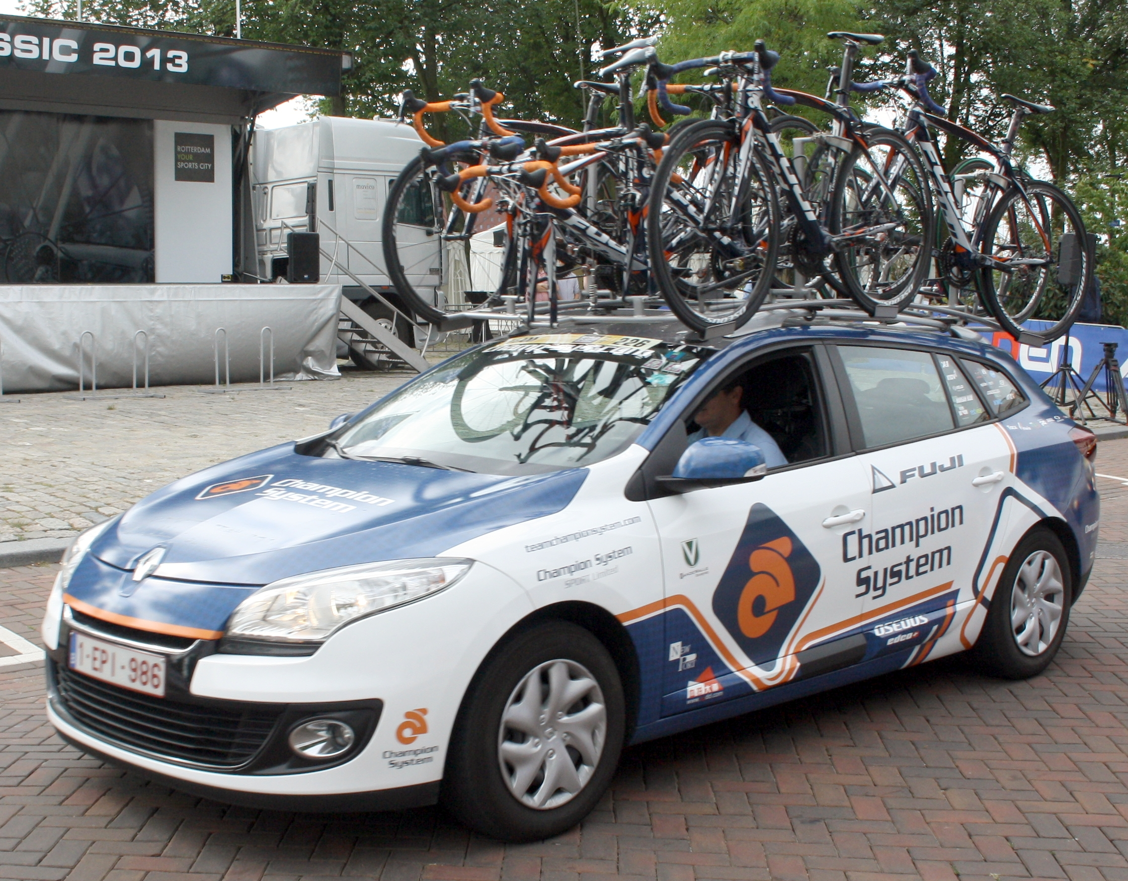 Champion System team car before the start of stage 2 of the World Ports Classic 2013